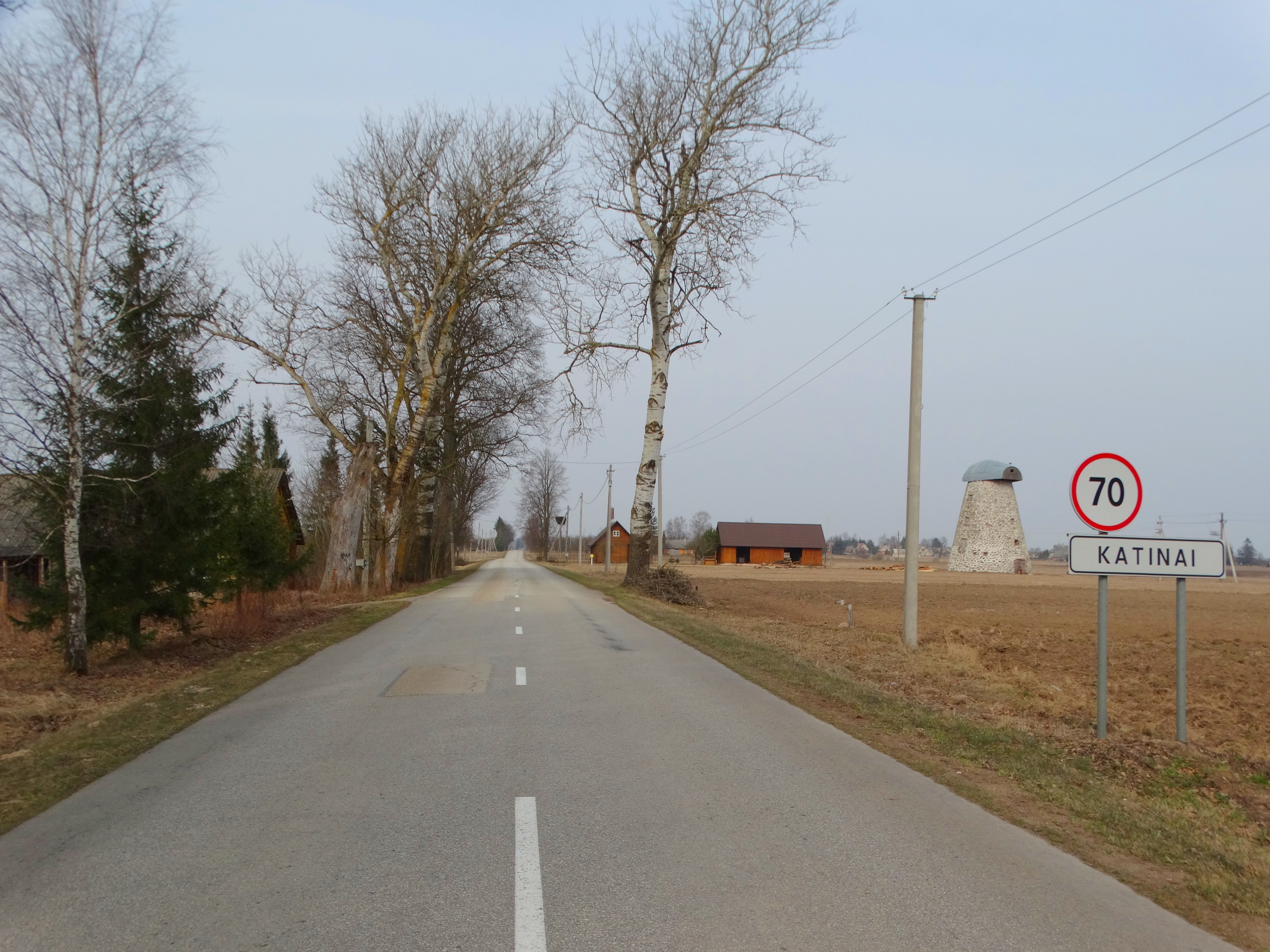 Katinai, windmill, Panevėžys District, Lithuania